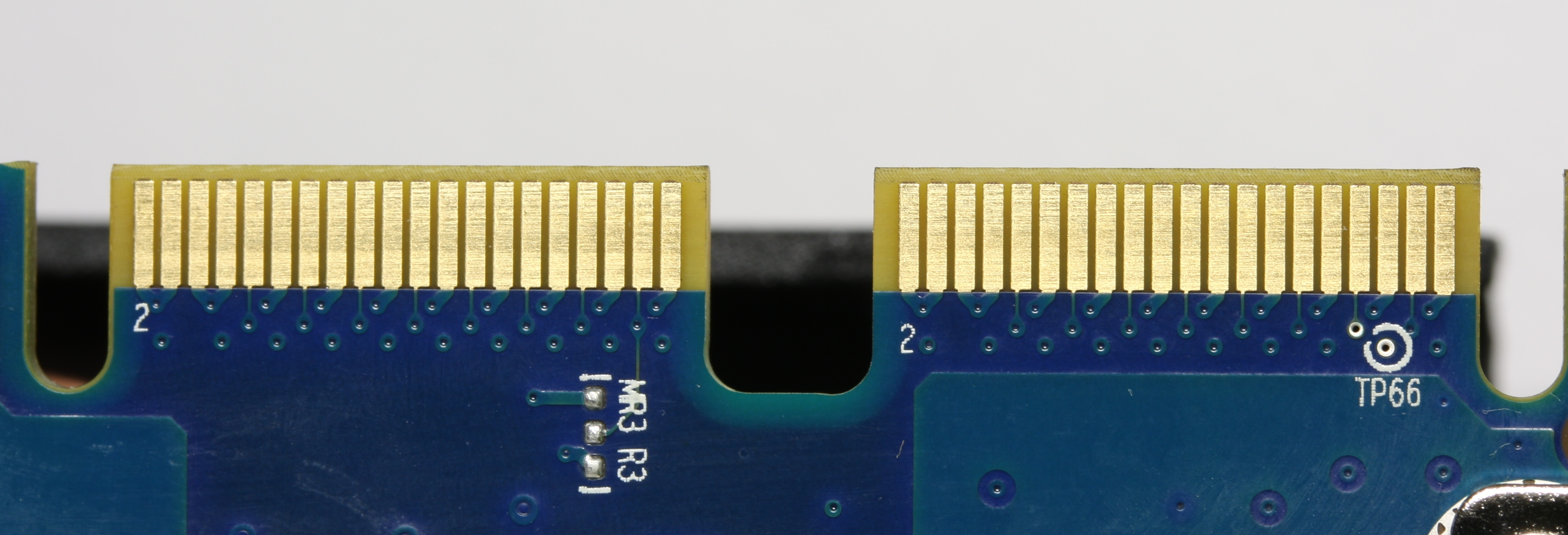 Two CrossFire Connections on a Sapphire Radeon HD 5870 (see also Evergreen (GPU family))